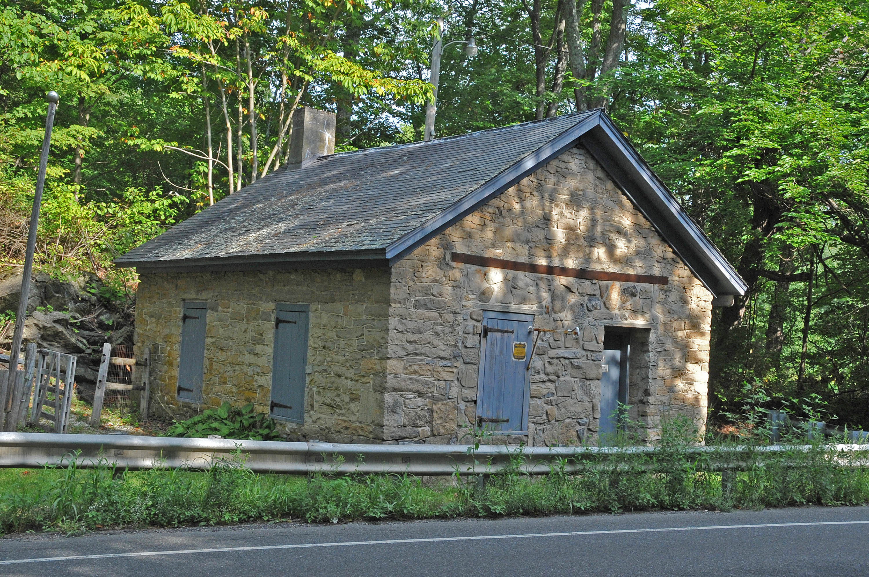 circa 1819